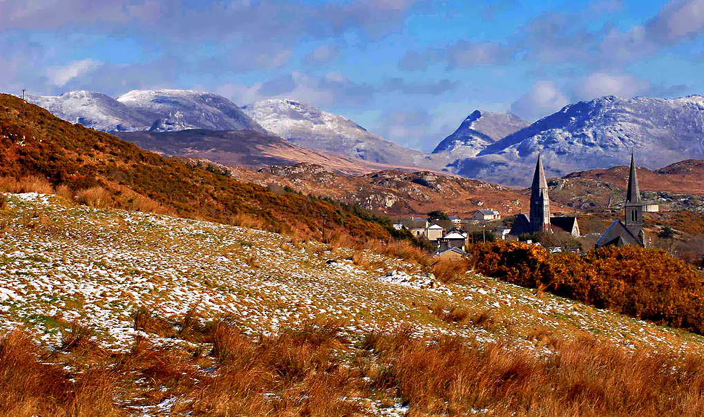 We had a lot of snow this year in IrelandConnemara / Clifden